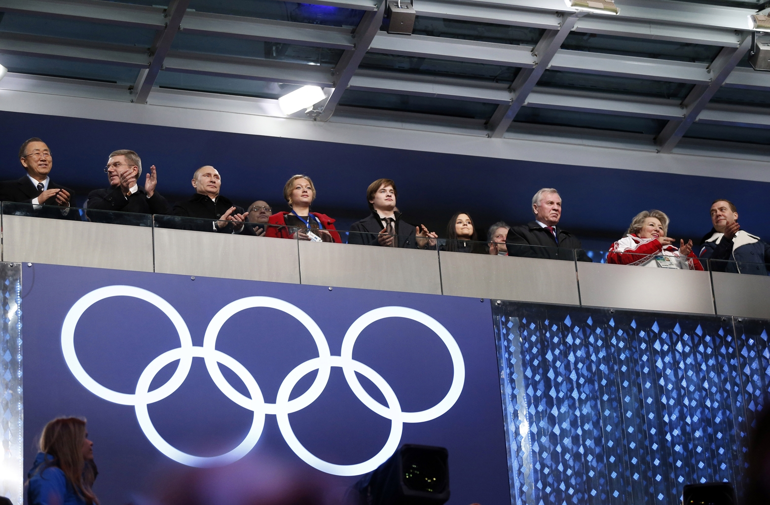 2014 Winter Olympics opening ceremony (2014-02-07)